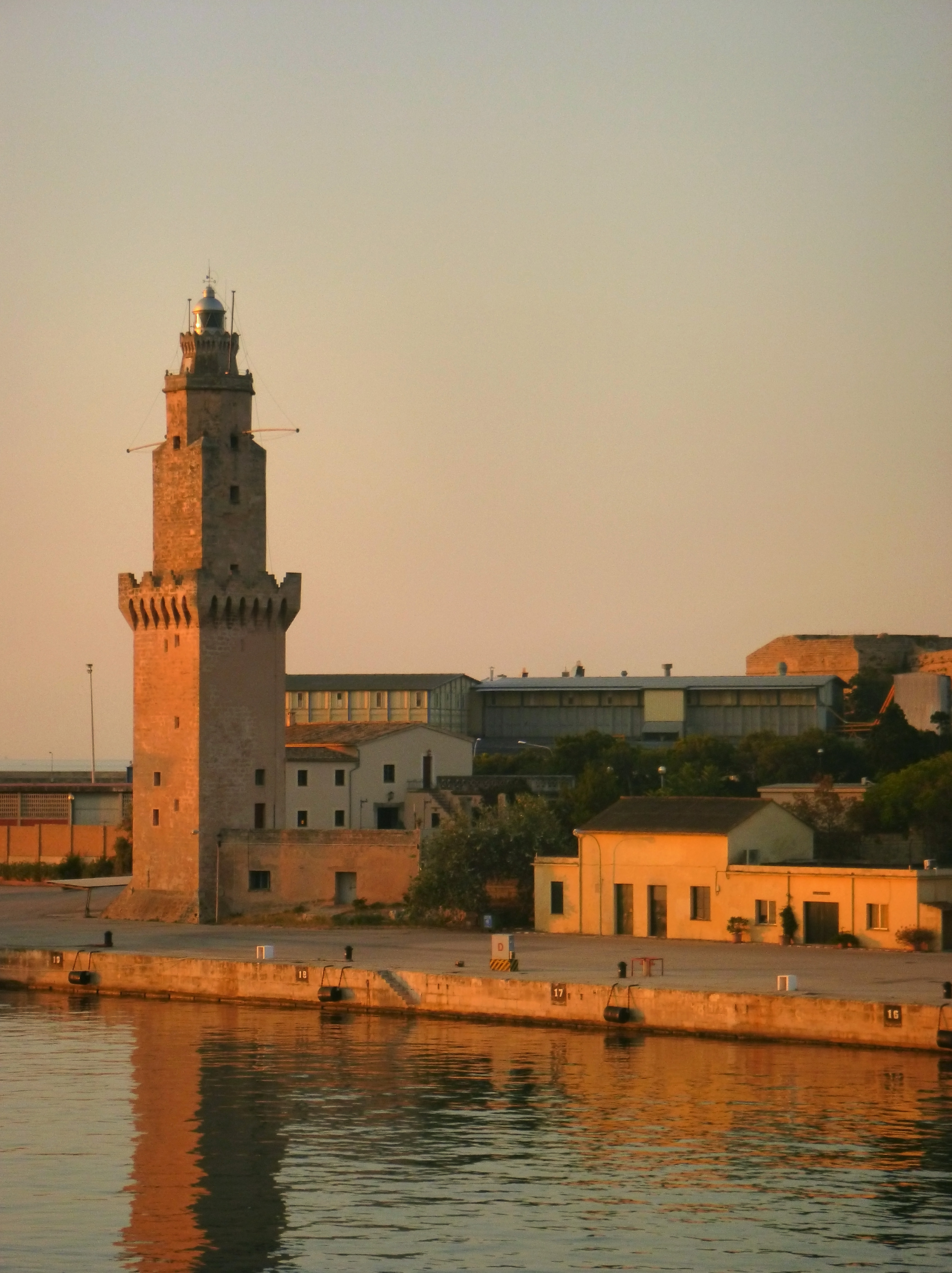 The Lighthouse at Porto Pi, Palma de Mallorca, built in 1612.